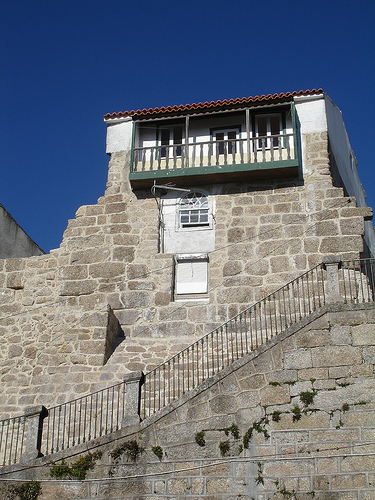 Medieval walls of Covilhã